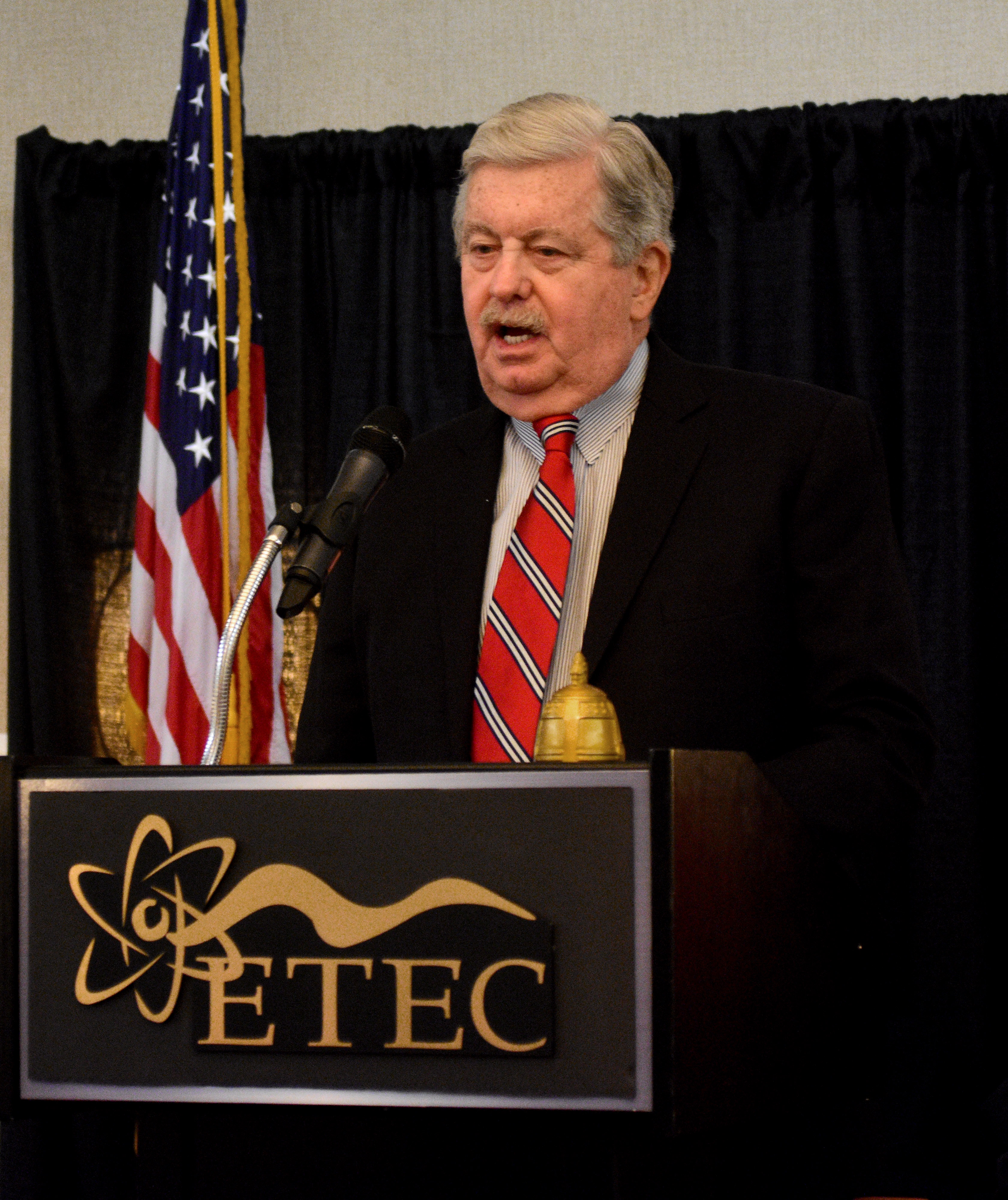 17-175-4046 DOE photo Lynn Freeny 12-8-2017 Lt. Governor Randy McNally Oak Ridge Tennessee